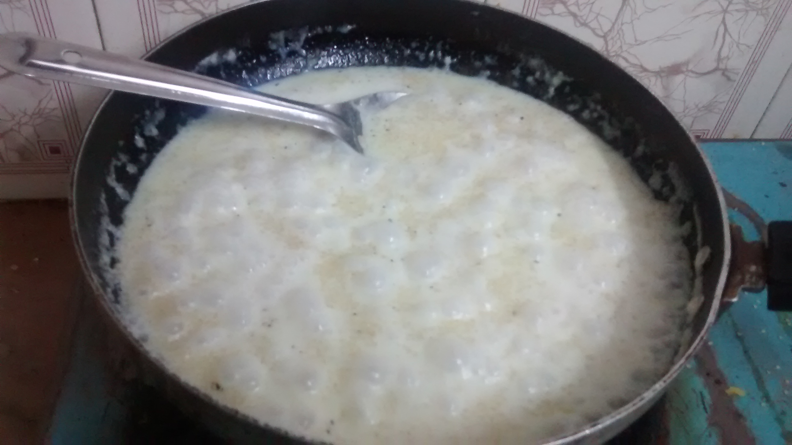 This is delicious Daliya kheer.